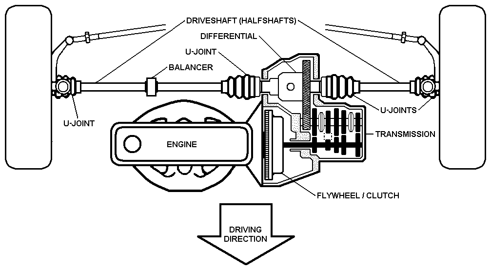 Typical layout of transverse engine with manual transmission / transaxle and front wheel drive. View from above the engine / transmission unit.